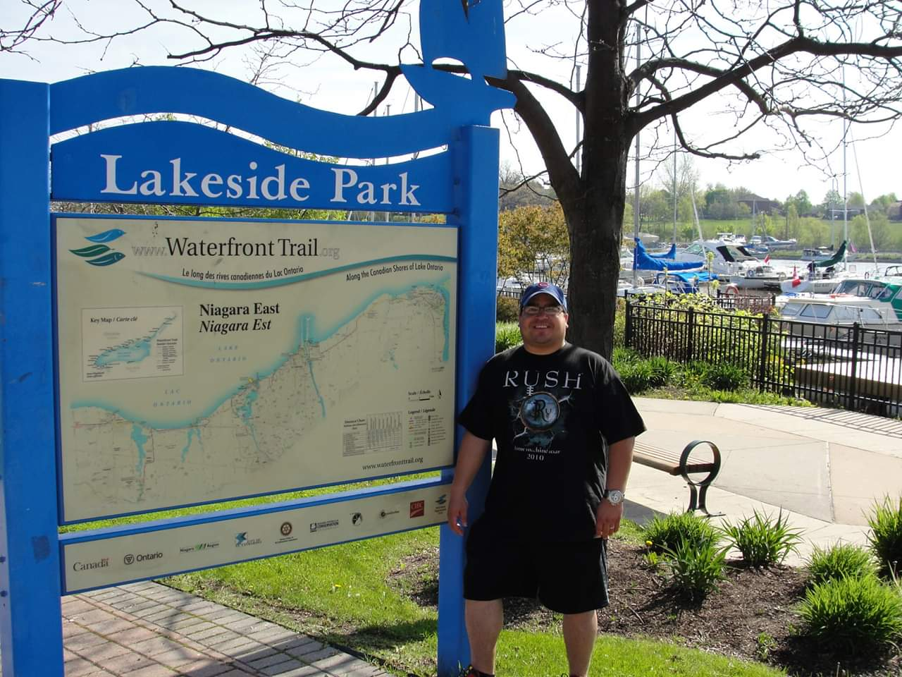 Rush Fan, Sam Olivares, from Houston, Texas adds to his Rush bucket list visiting Lakeside Park in Port Delhousie.